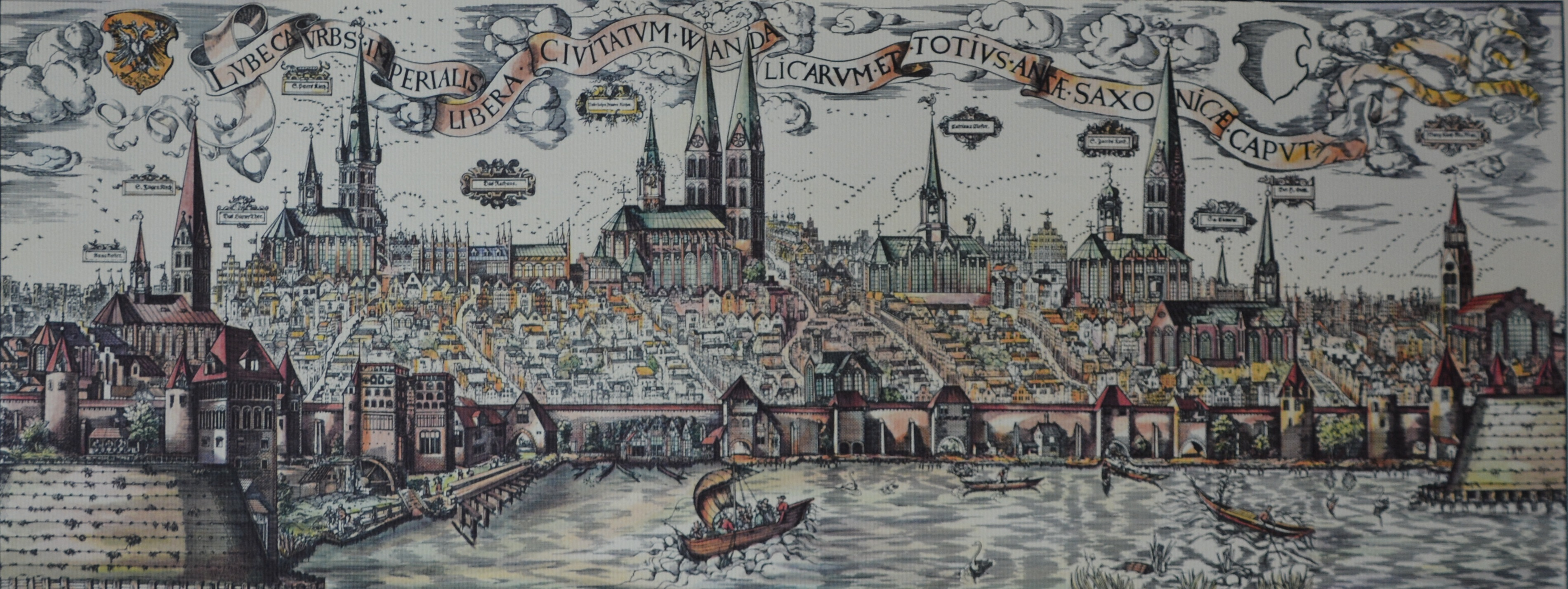 Lübeck 17th Century, anonymous